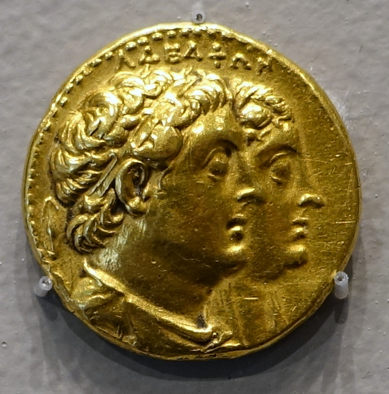 Exhibit in the Arthur M. Sackler Museum, Harvard University, Cambridge, Massachusetts, USA. This artwork is in the public domain because the artist died more than 70 years ago.